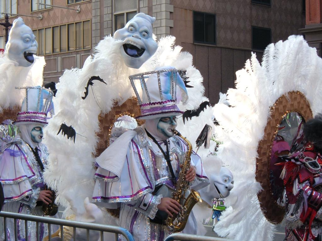 Mummers that are part of a "string band" at the 2005 Mummers Parade